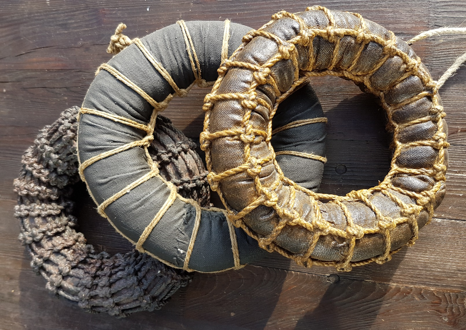 Experimental reconstructions of three pitch garlands or storm garlands or fire crowns of different constructions.